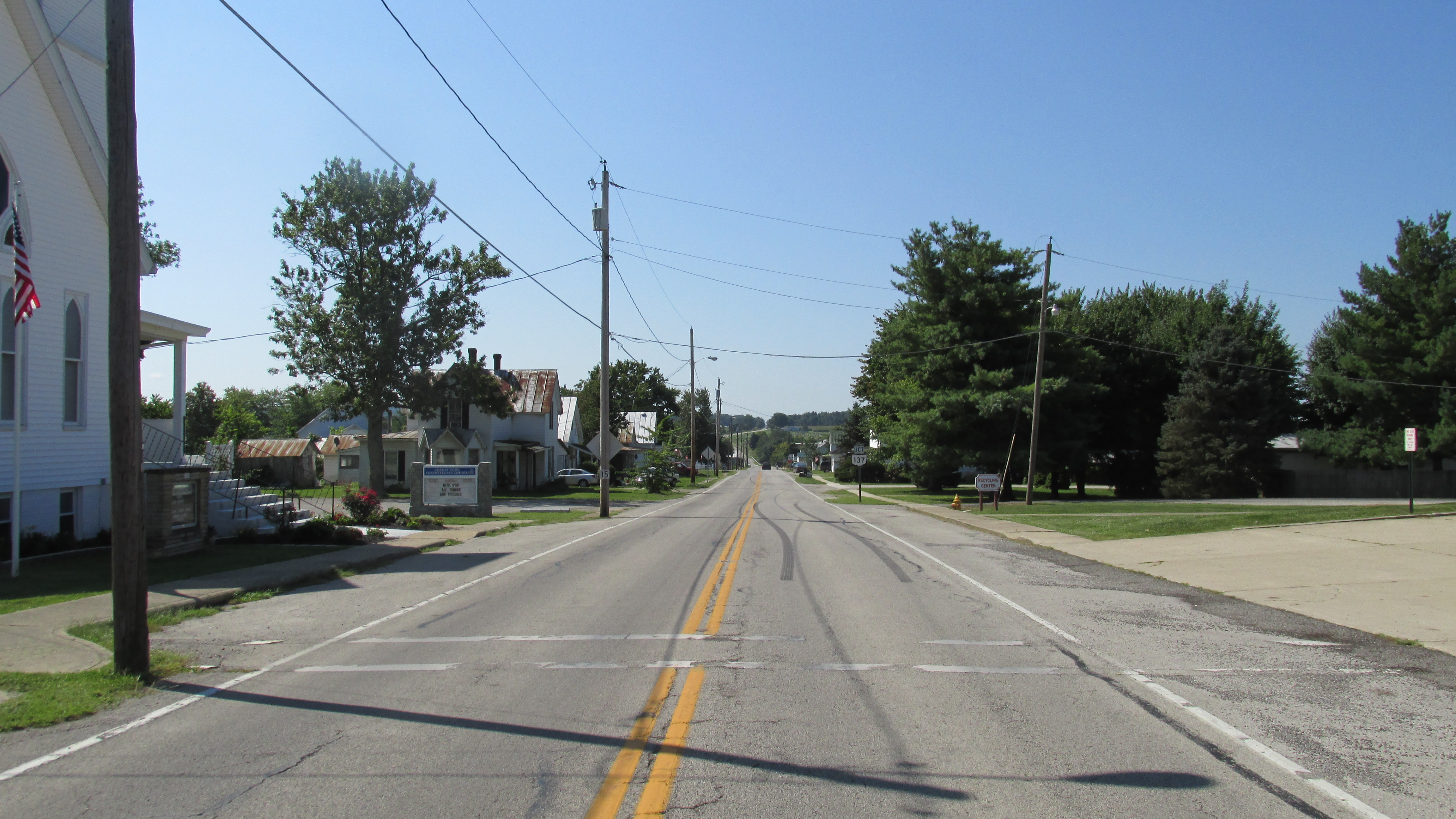 Looking south on Ohio Highway 136 in Cherry Fork.